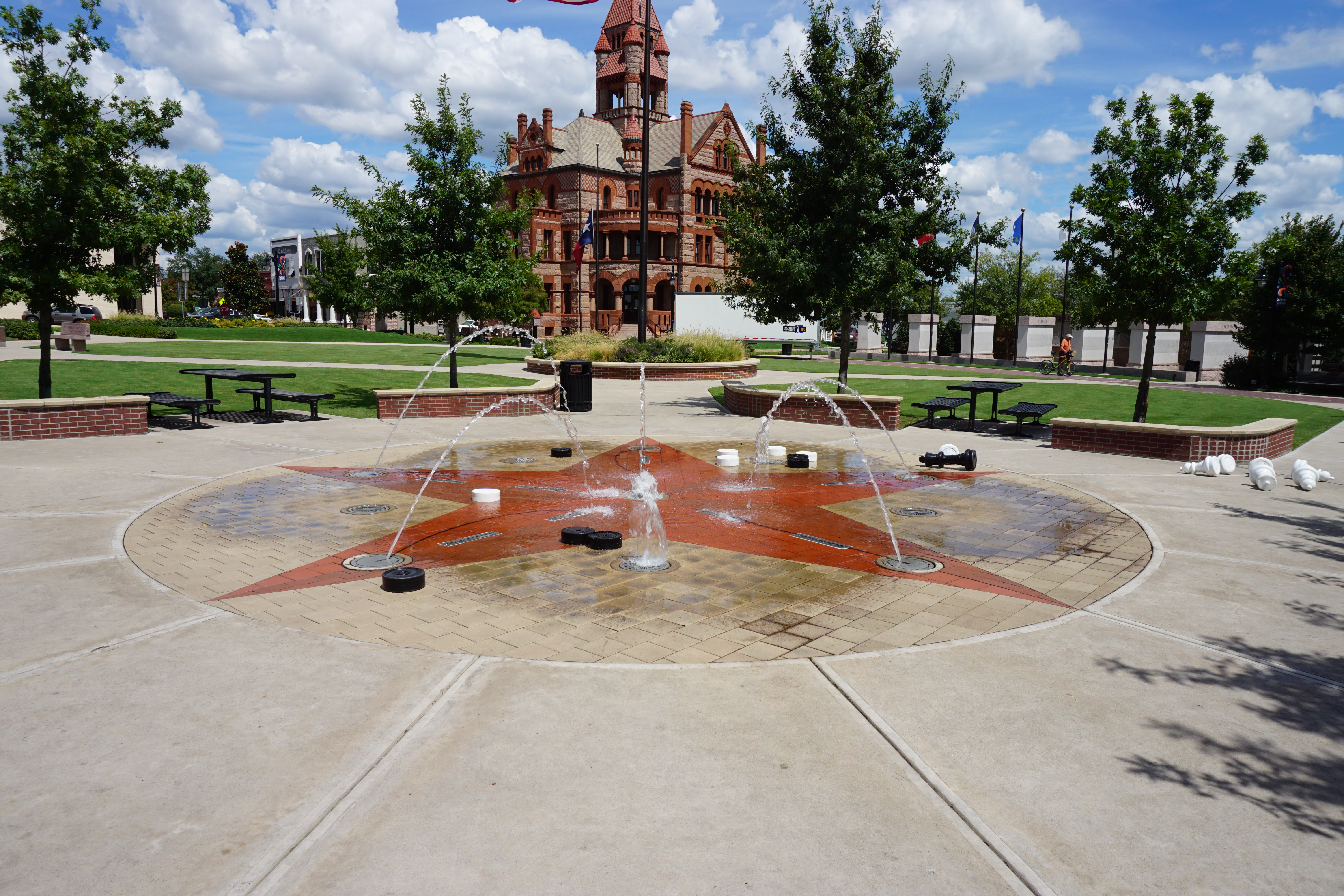 Courthouse Square in Sulphur Springs, Texas (United States).